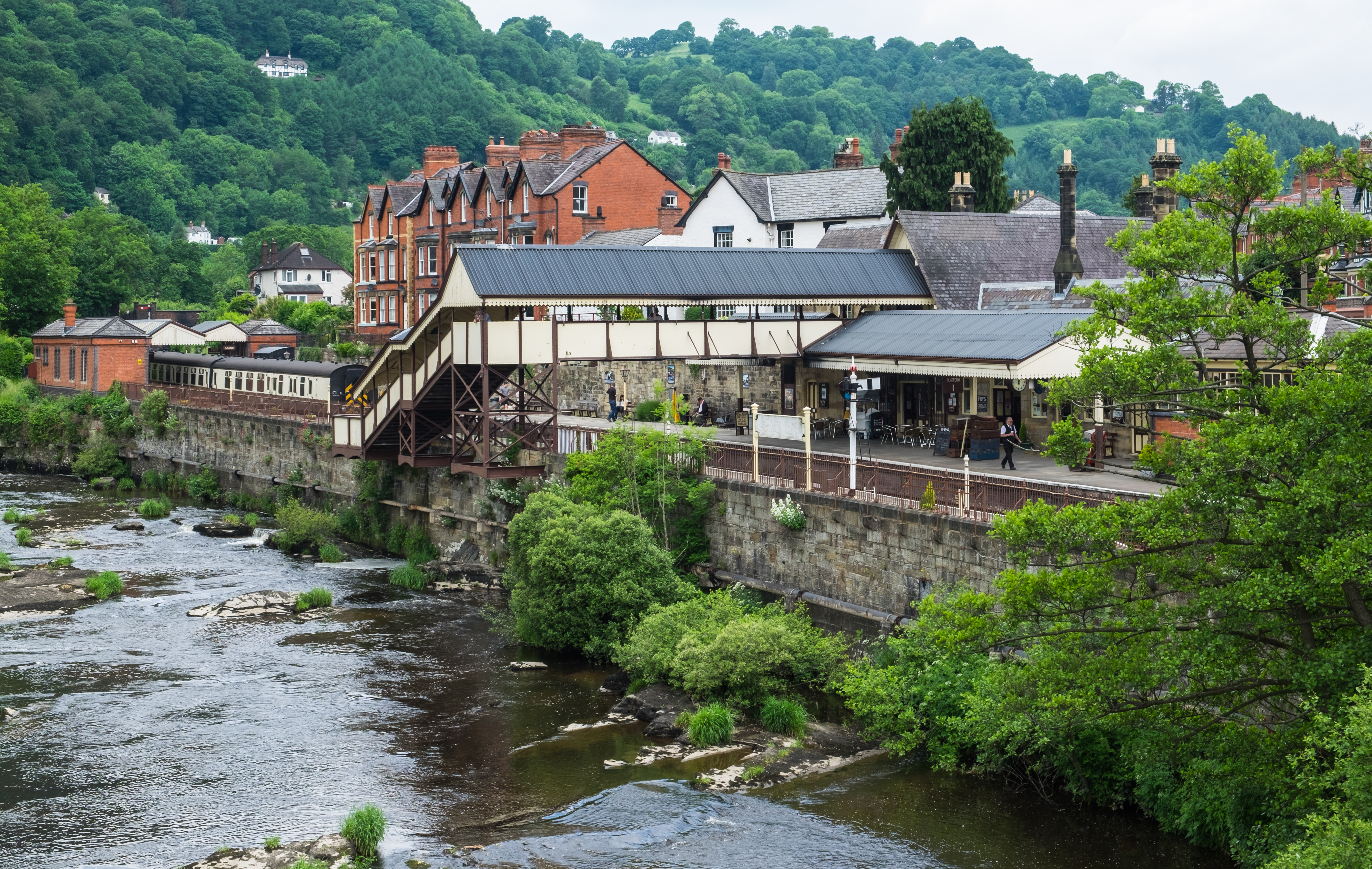 The preserved historic Llangollen railway station, Wales, alongside the River Dee.